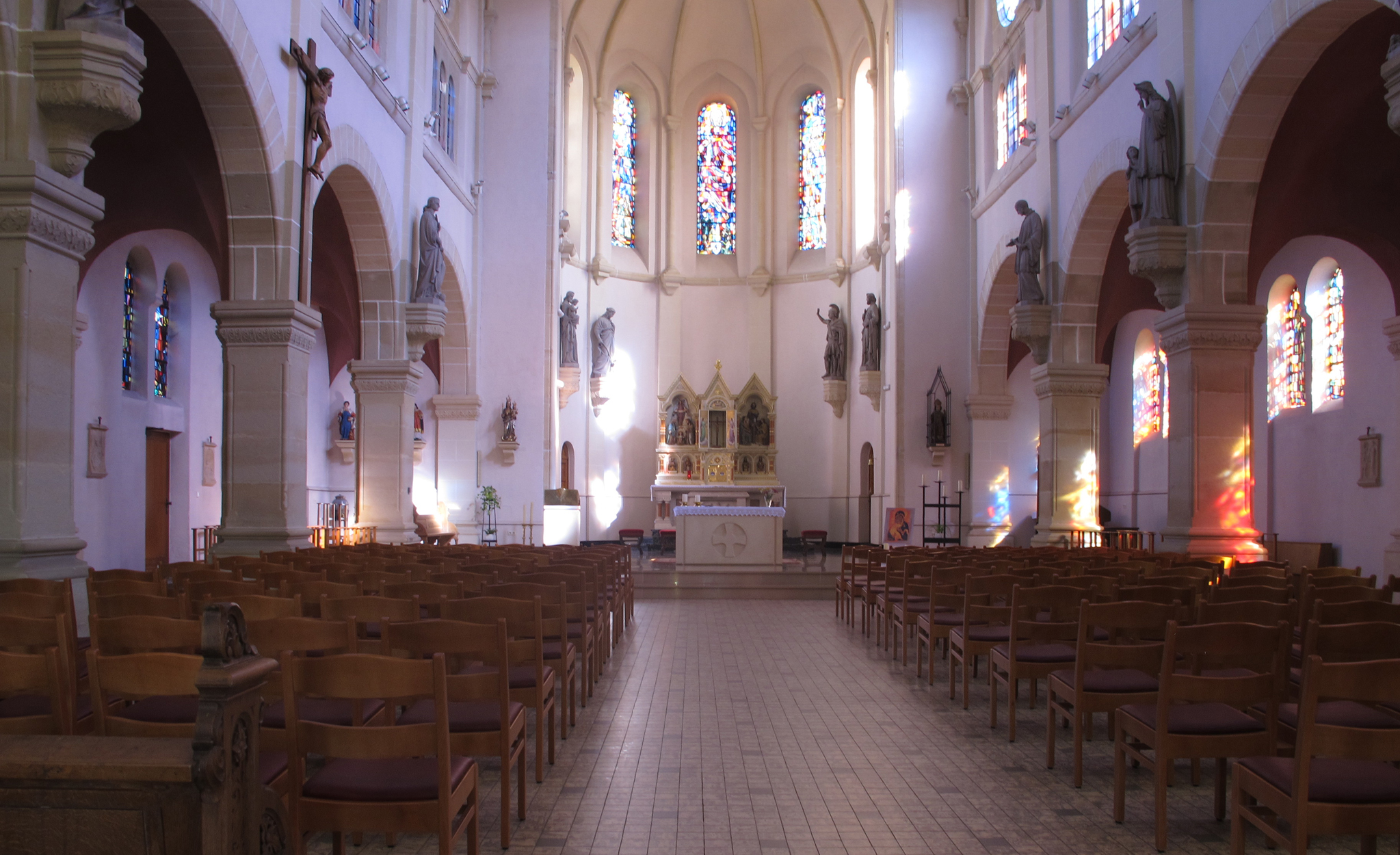 Interior view of the church from Tétange, Luxembourg